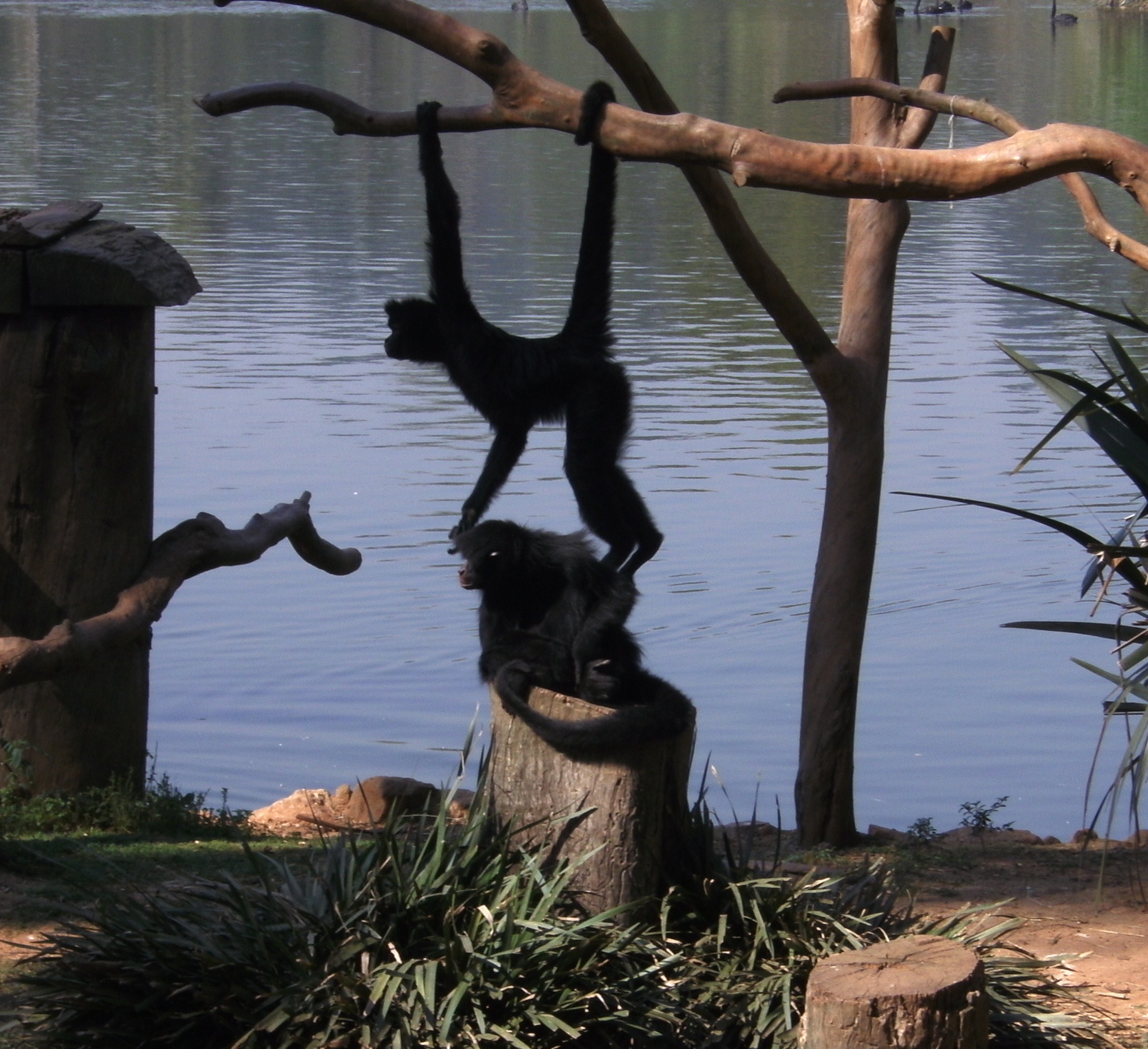 Ateles fusciceps in SP zoo